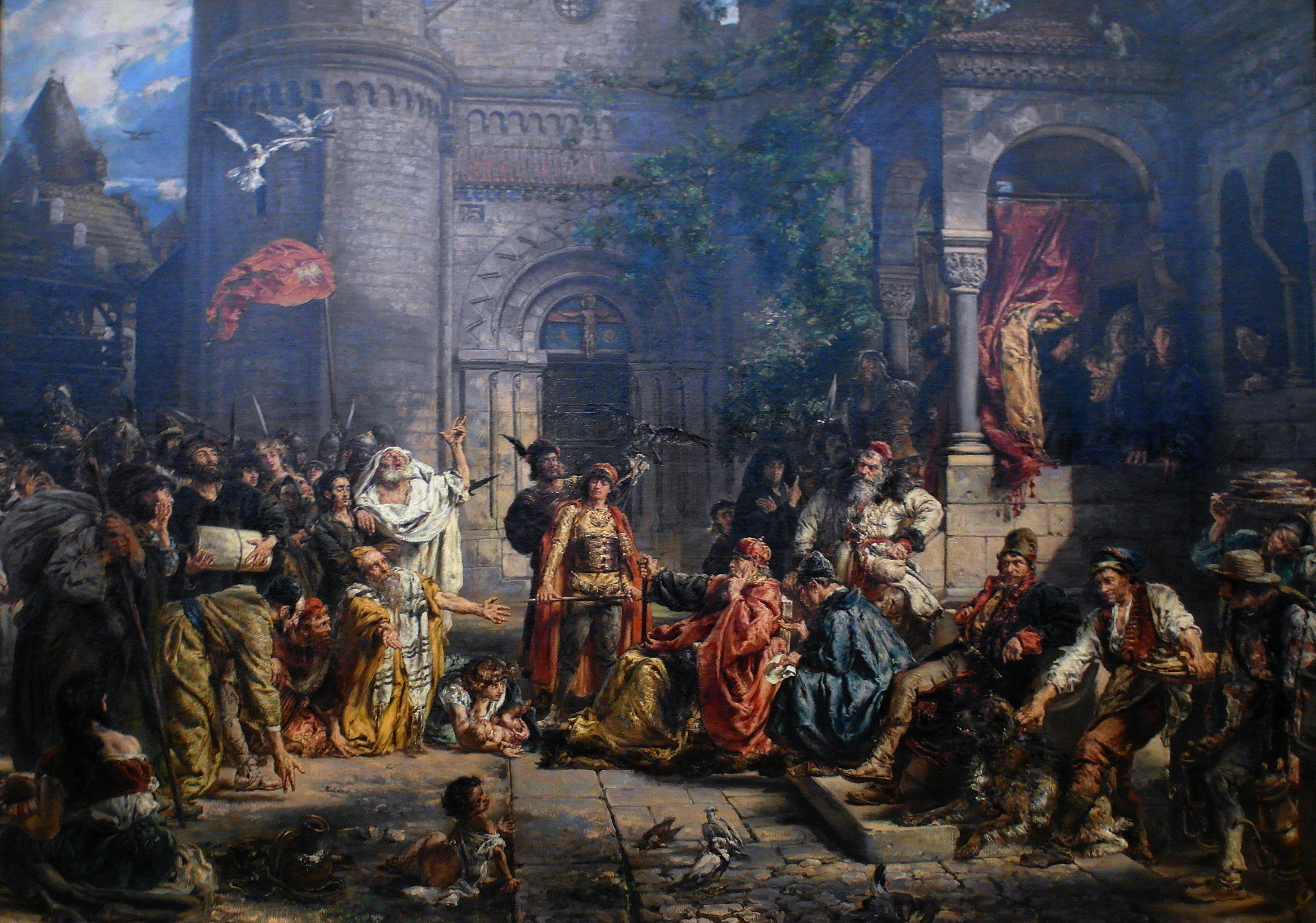 1096 reception of Jews in Poland by Jan Matejko 1889. Part of the History of Civilization in Poland series.